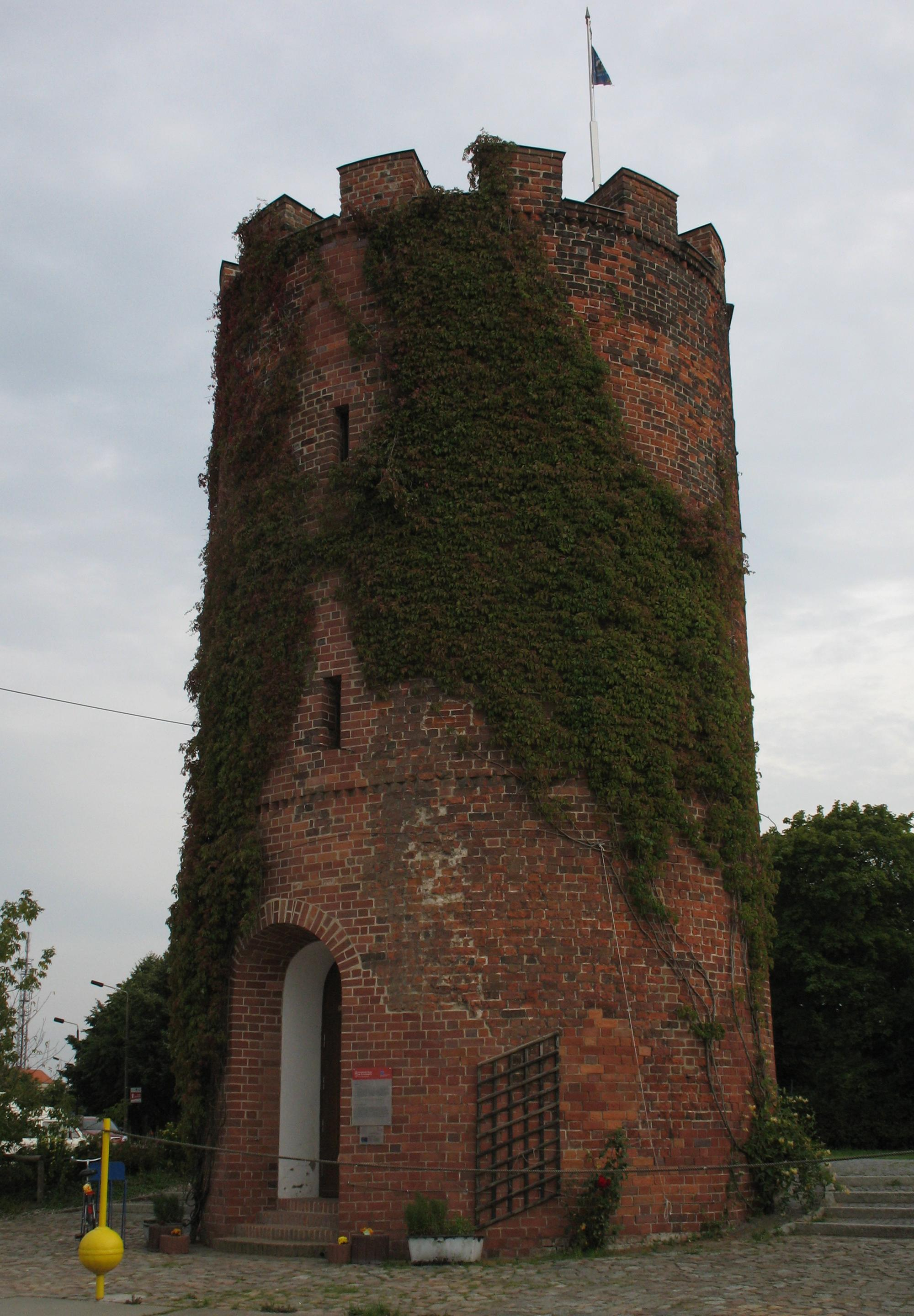 Oubliette in Greifswald in Mecklenburg-Western Pomerania, Germany